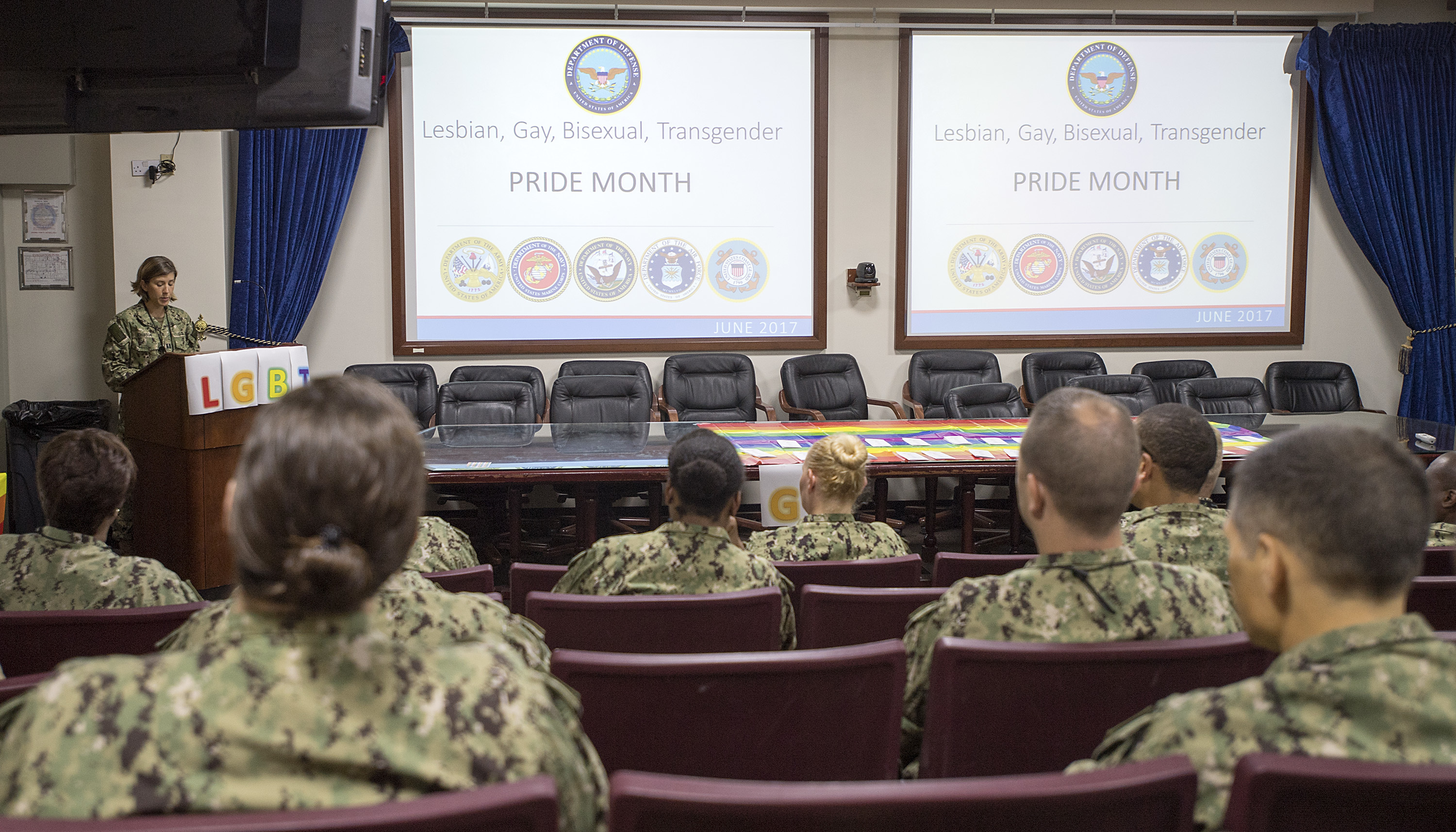 170629-N-ZV163-0013 MANAMA, Bahrain (June 29, 2017) Lt. Jennifer Johnson, born and raised in Saudi Arabia, speaks at a Lesbian, Gay, Bisexual and Transgender (LGBT) Pride Month observance at U.S. Naval Forces Central Command Headquarters, June 29. Johnson was named the National LGBT Bar Association's Class of 2017: Best Lawyer. Initially established as "Gay and Lesbian Month" by Presidential Proclamation in 2000, LGBT Pride Month recognizes the accomplishments of the lesbian, gay, bisexual and transgender community. (U.S. Navy photo by Mass Communication Specialist 2nd Class Christina Brewer) Unit: U.S. Naval Forces Central Command / U.S. 5th Fleet DVIDS Tags: US 5th Fleet; NAVCENT; Pride Month; LBGT